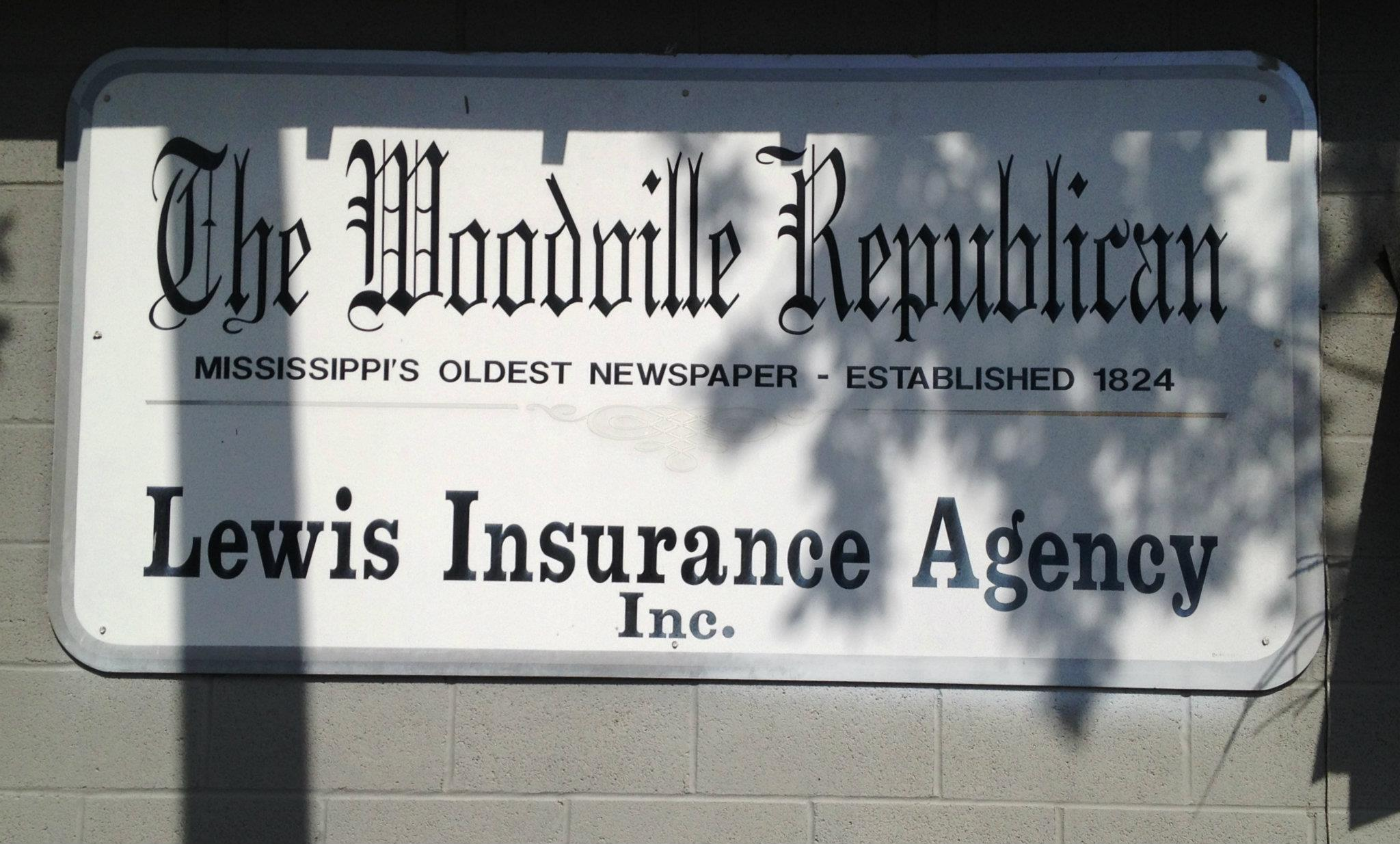 Sign on the office of the WOODVILLE REPUBLICAN in 2012